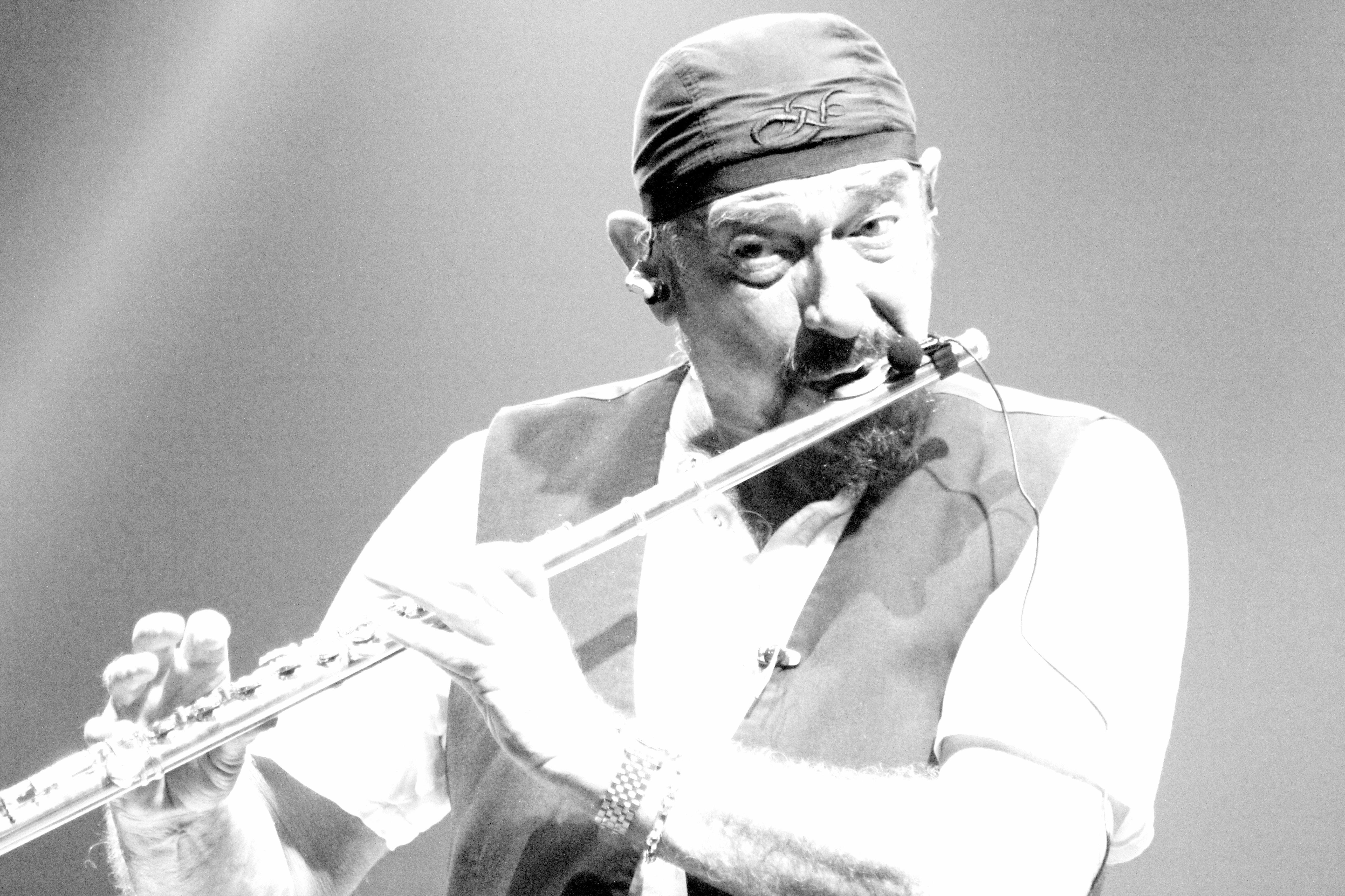 Ian Anderson, lead vocalist, flautist and acoustic guitarist of Jethro Tull, Munich 2014